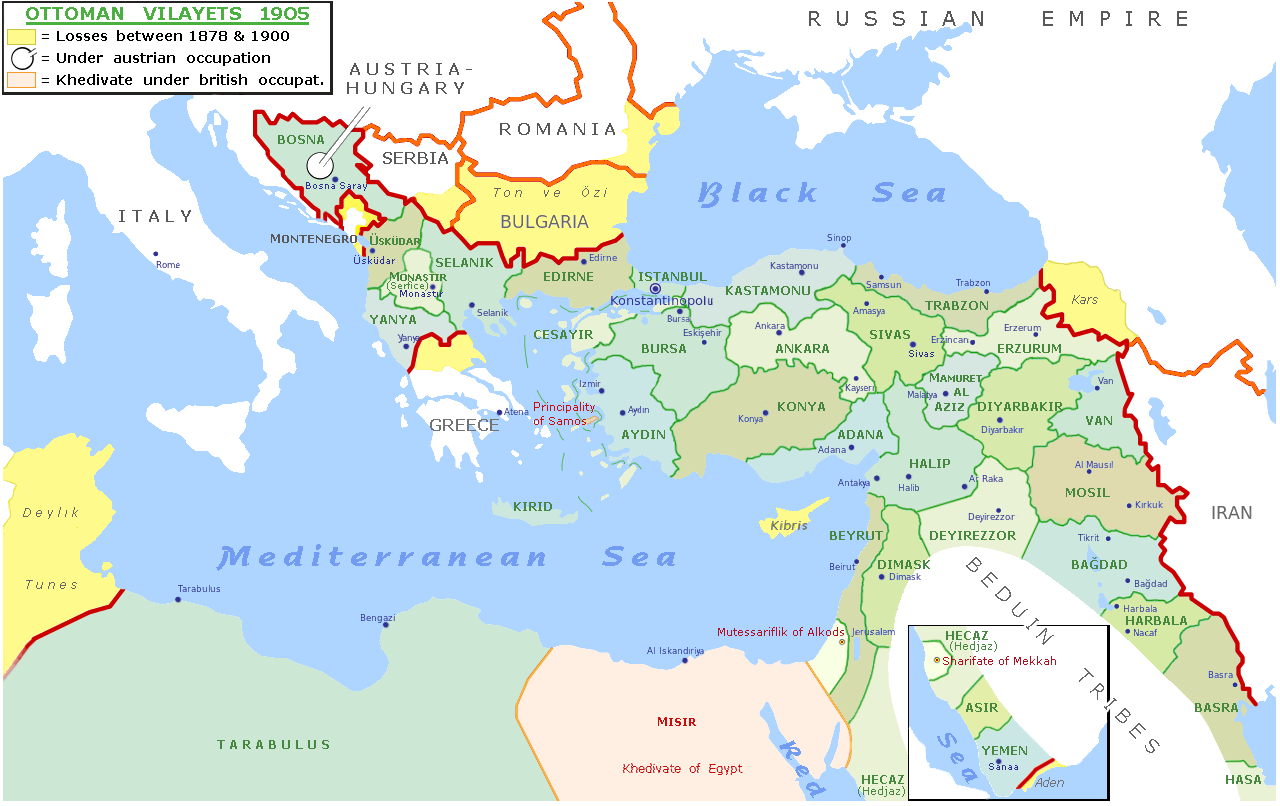 Map of the Ottoman empire in 1900, derivative since File:Map-of-Ottoman-Empire-in-1900-Latvian.svg but in english & with more details since H. E. Stier (dir.), Grosser Atlas zur Weltgeschichte, Westermann eds., Braunschweig 1985, ISBN 3-14-100919-8